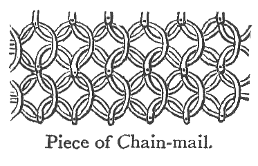 Illustration from 1908 Chambers's Twentieth Century Dictionary. Chain-mail, n. mail or armour made of iron links connected together, much used in Europe in the 12th and 13th centuries.